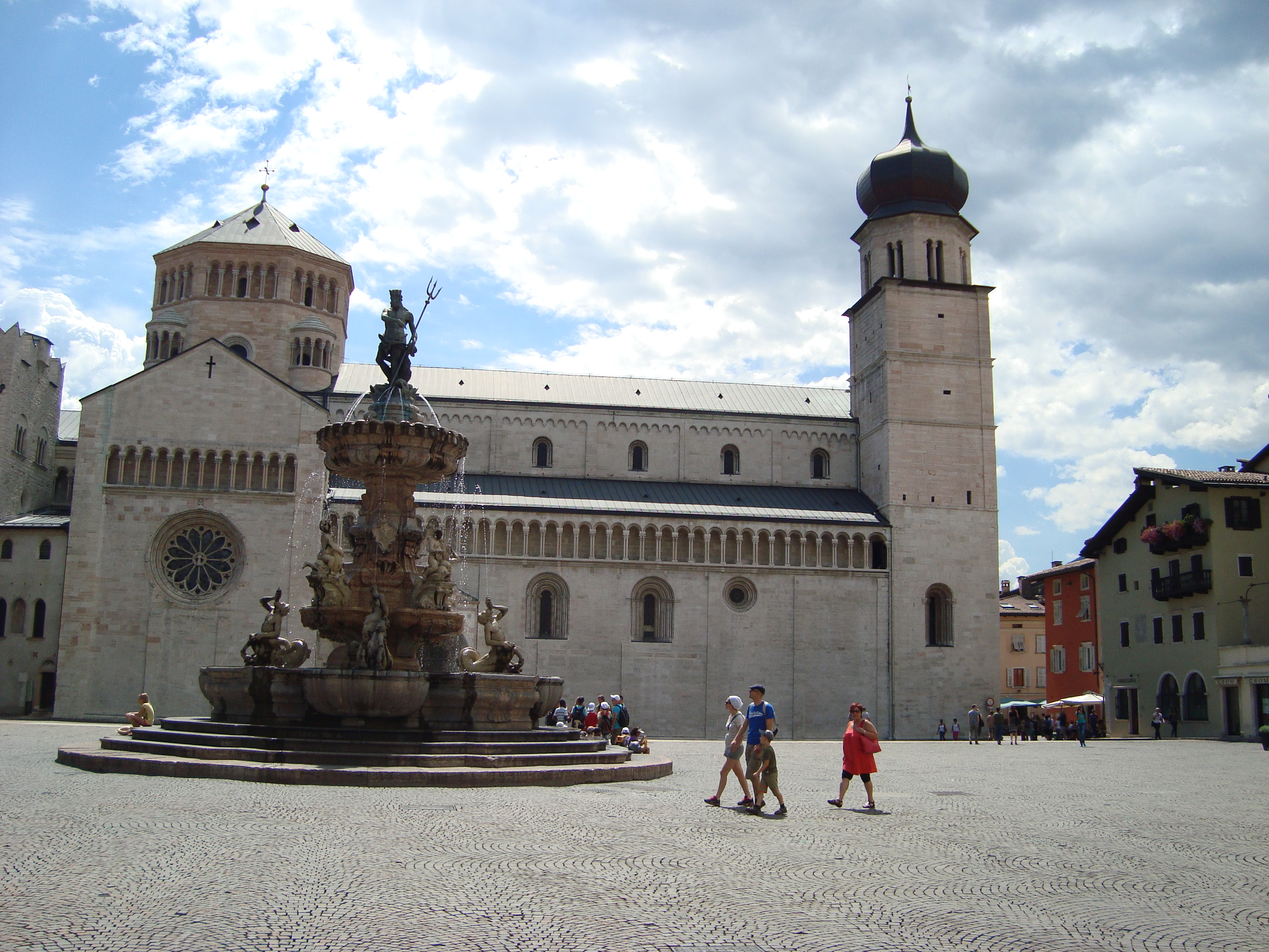 Trento